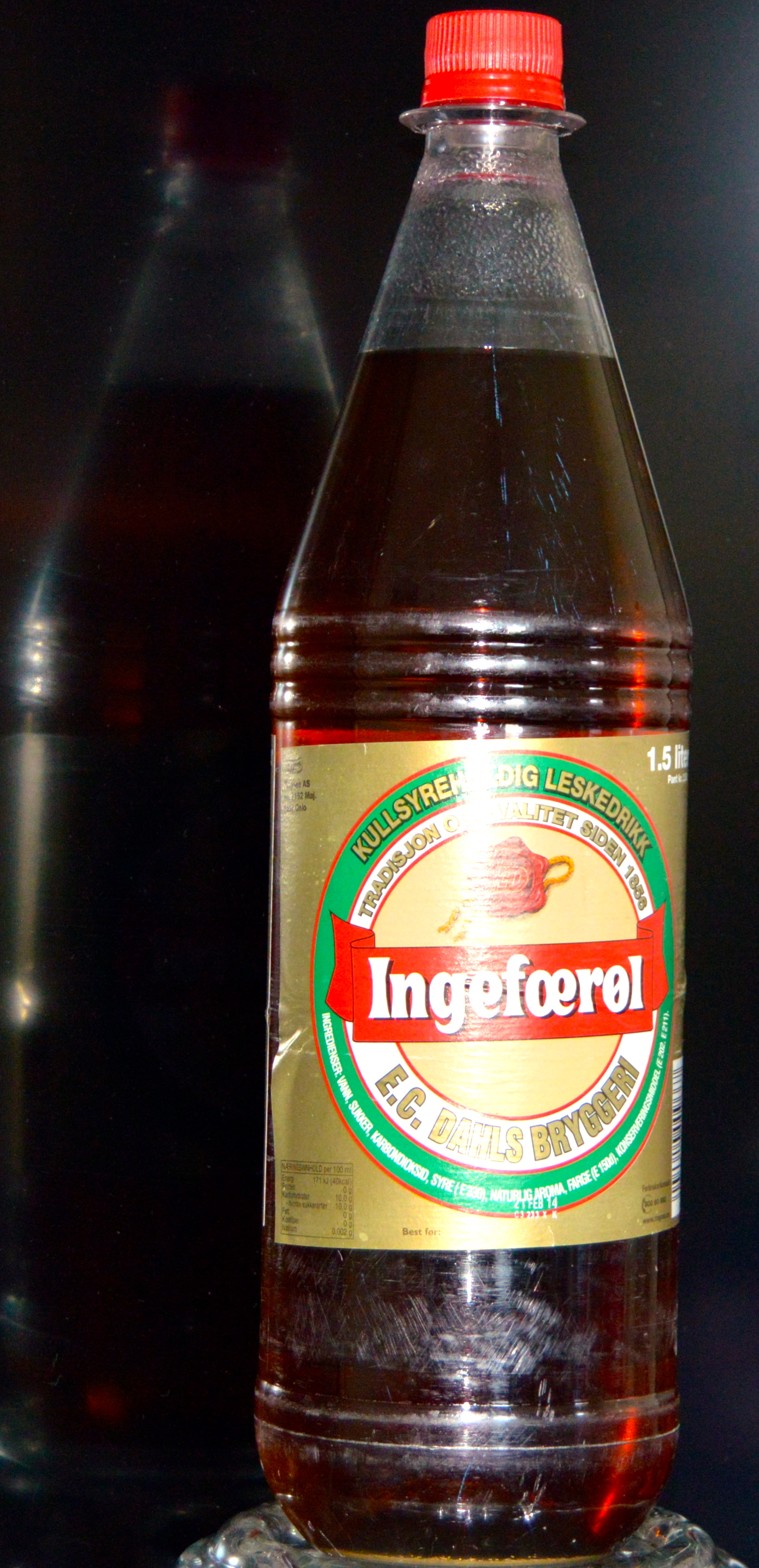 "Ingefærøl" (Ginger ale variant, not Ginger beer) by the Brewery E.C.Dahls in Trondheim, Norway